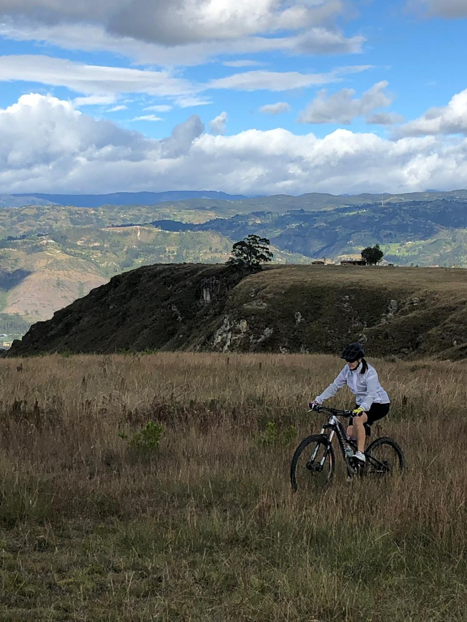 This picture shows a mountain biker riding in Cerro Pachamama also known as El Tablón.